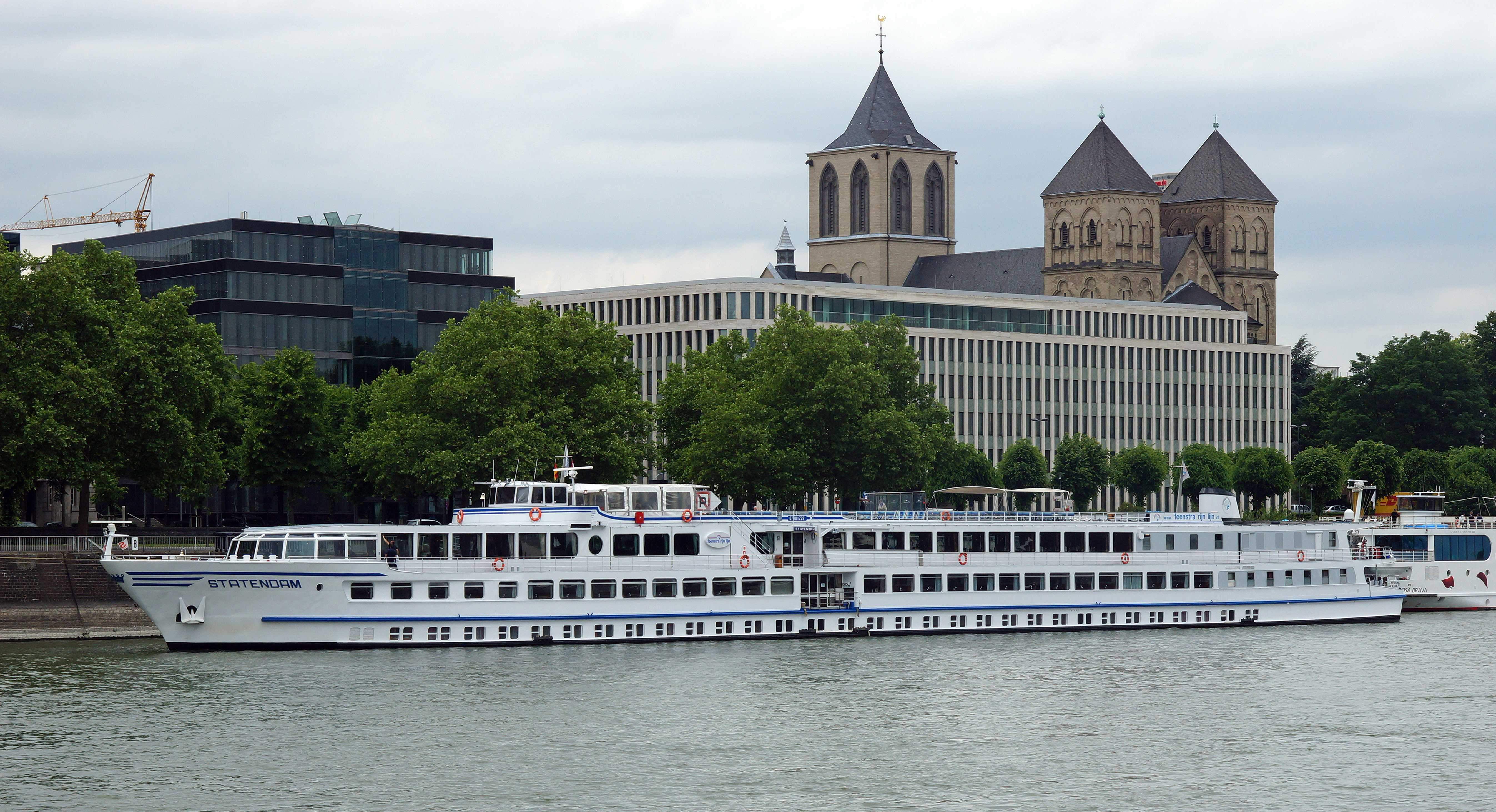 River cruise ship Statendam in Cologne.